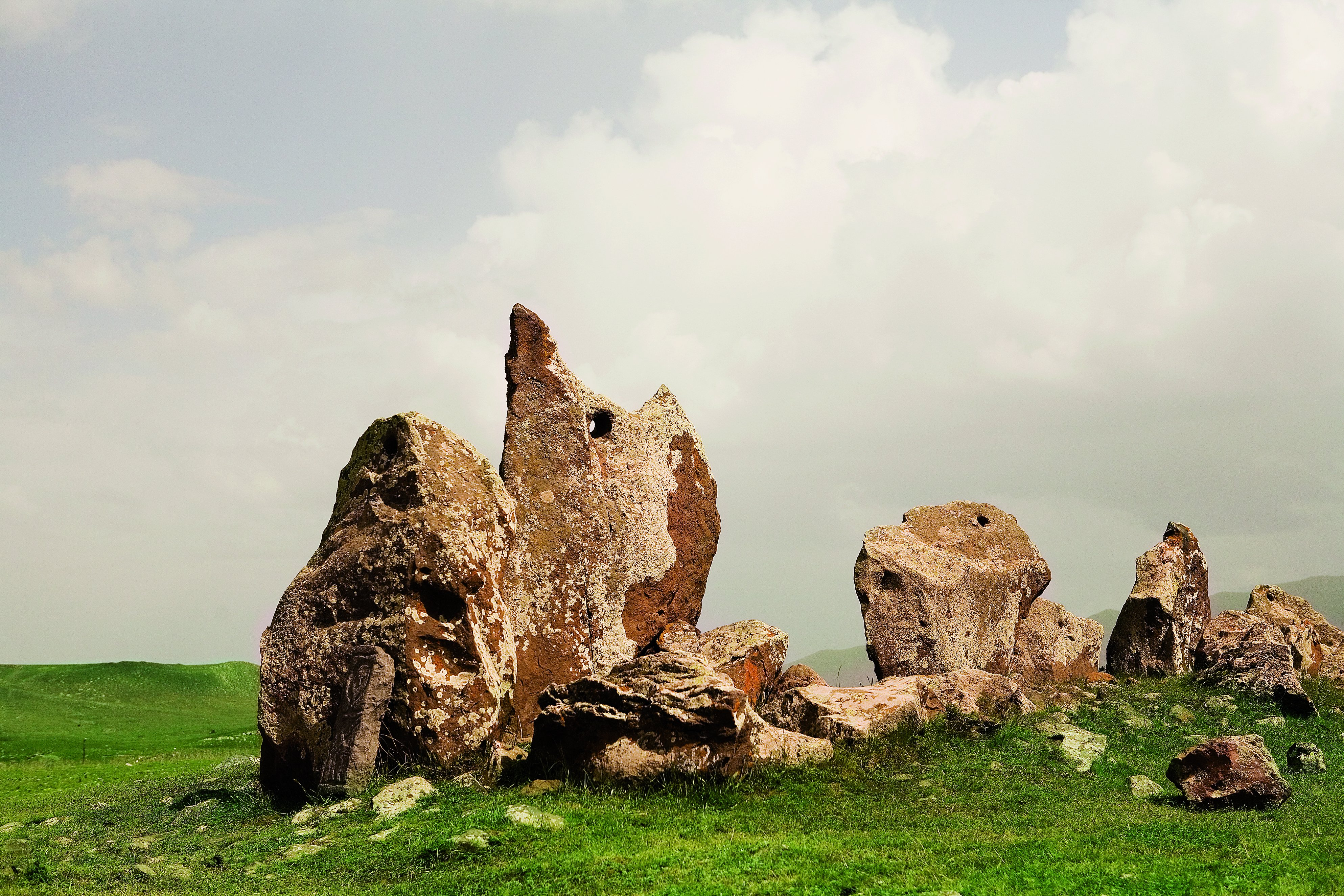 Zorats Karer: Menhir with Holes